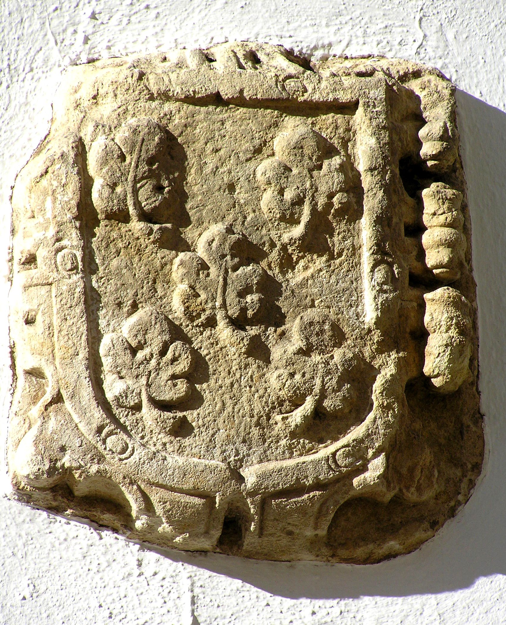 Blasón